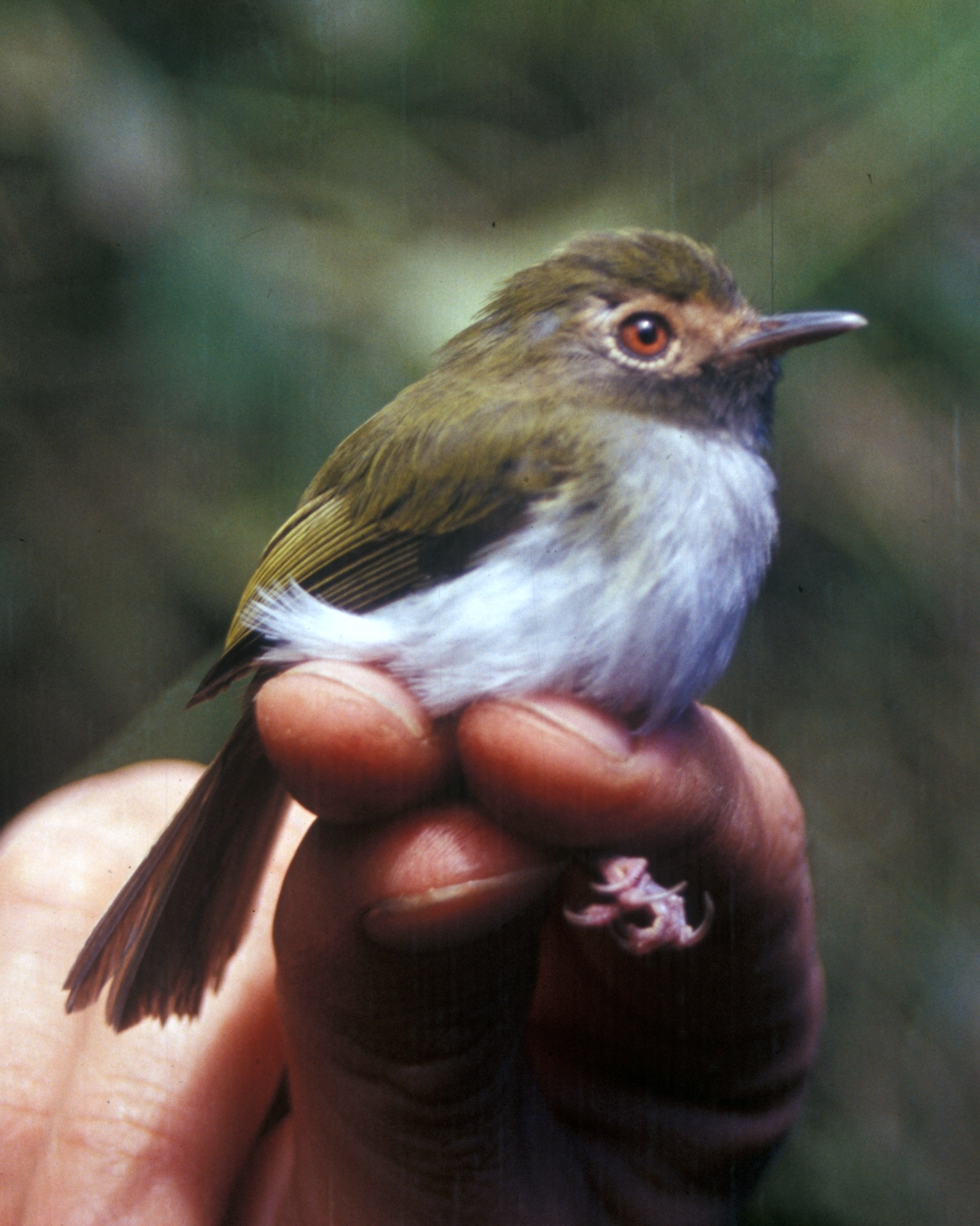 Black-throated Tody-tyrant (Hemitriccus granadensis) from Ecuador